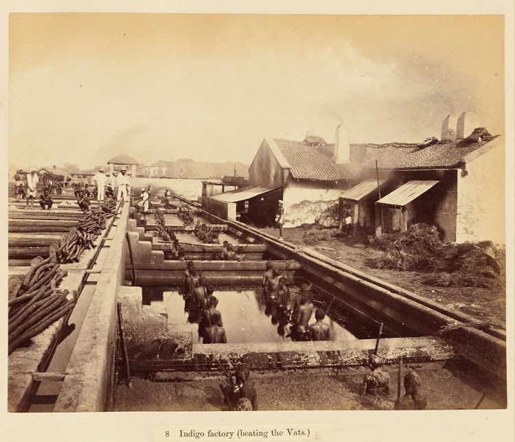 The planting and manufacture of Indigo in Allahabad, India in 1877.